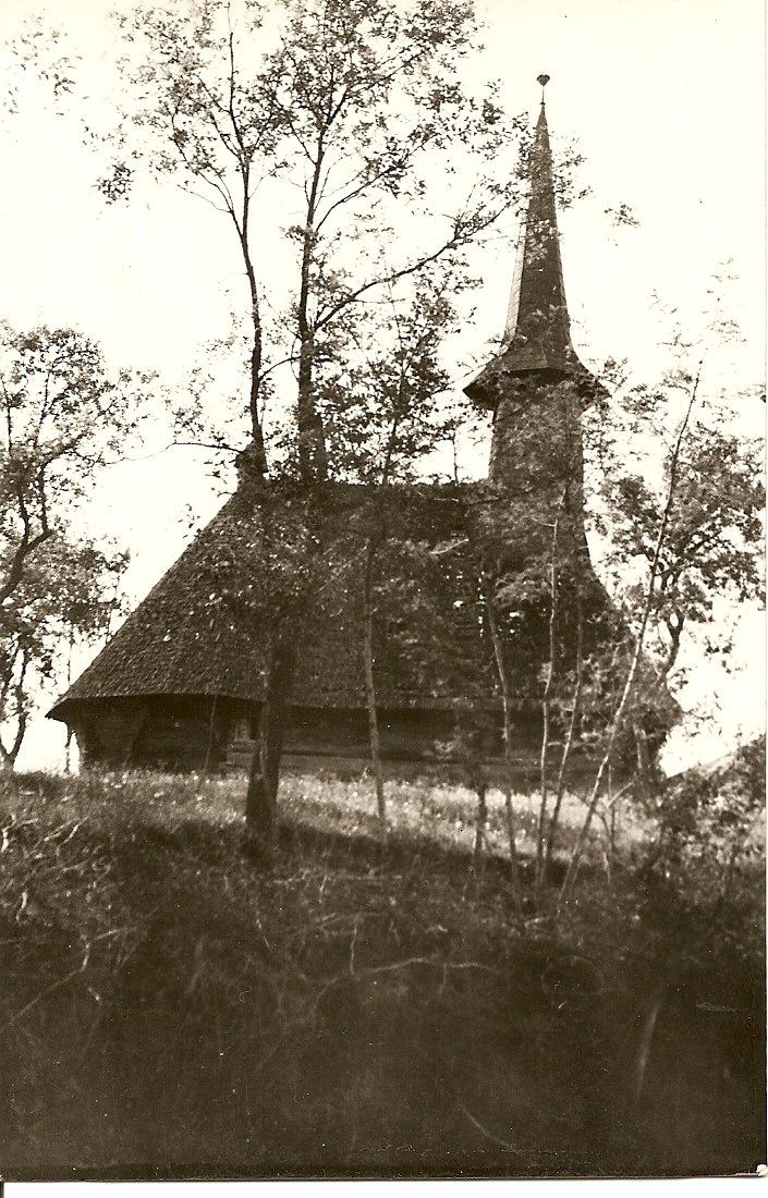 the wooden Greek Catholic church in Marin, Sălaj County, Romania, consecrated in 1780 and demolished in 1967